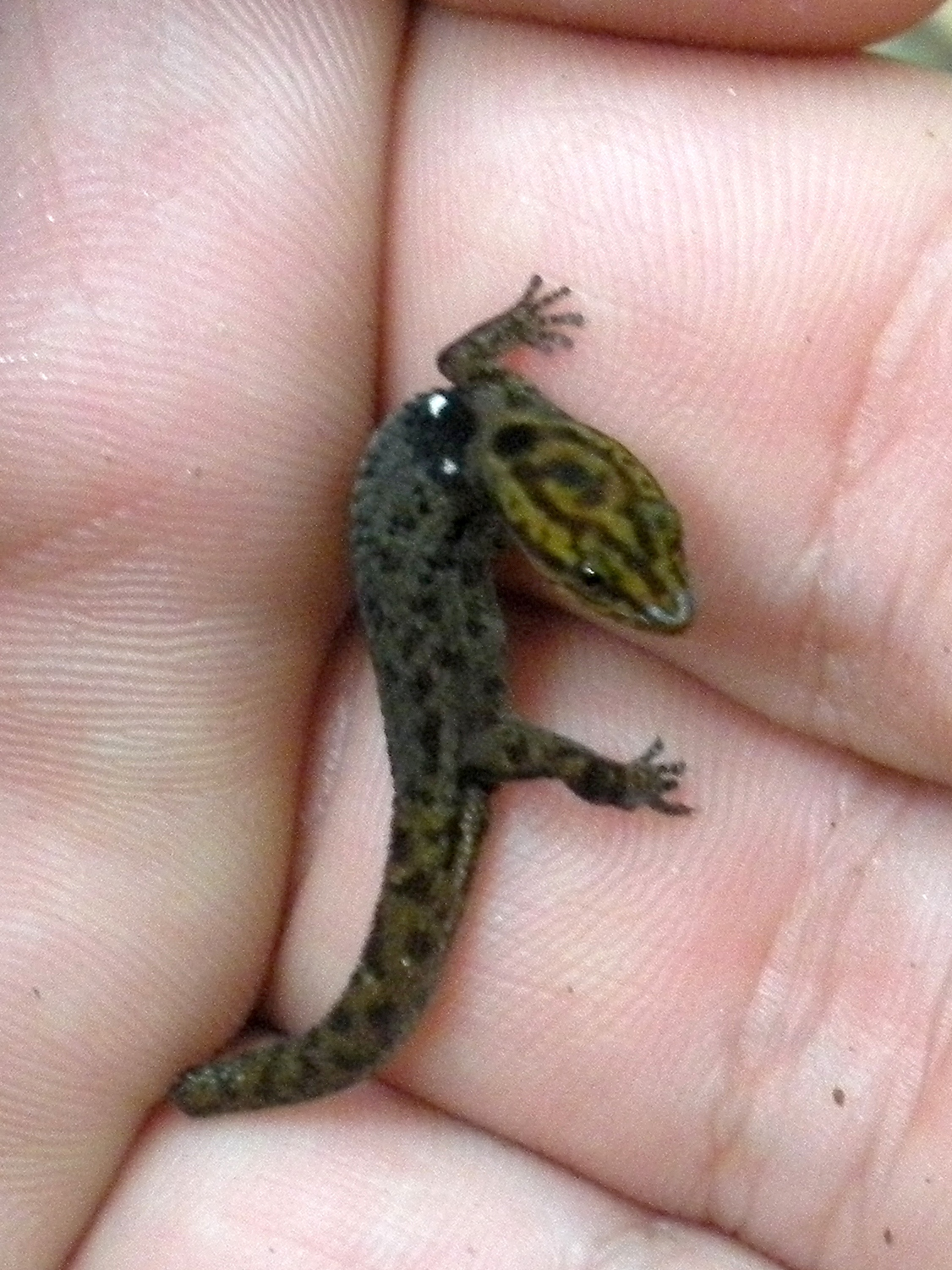 Sphaerodactylus macrolepis found in Jobos Bay National Estuarine Research Researve, Aguirre, Puerto Rico.